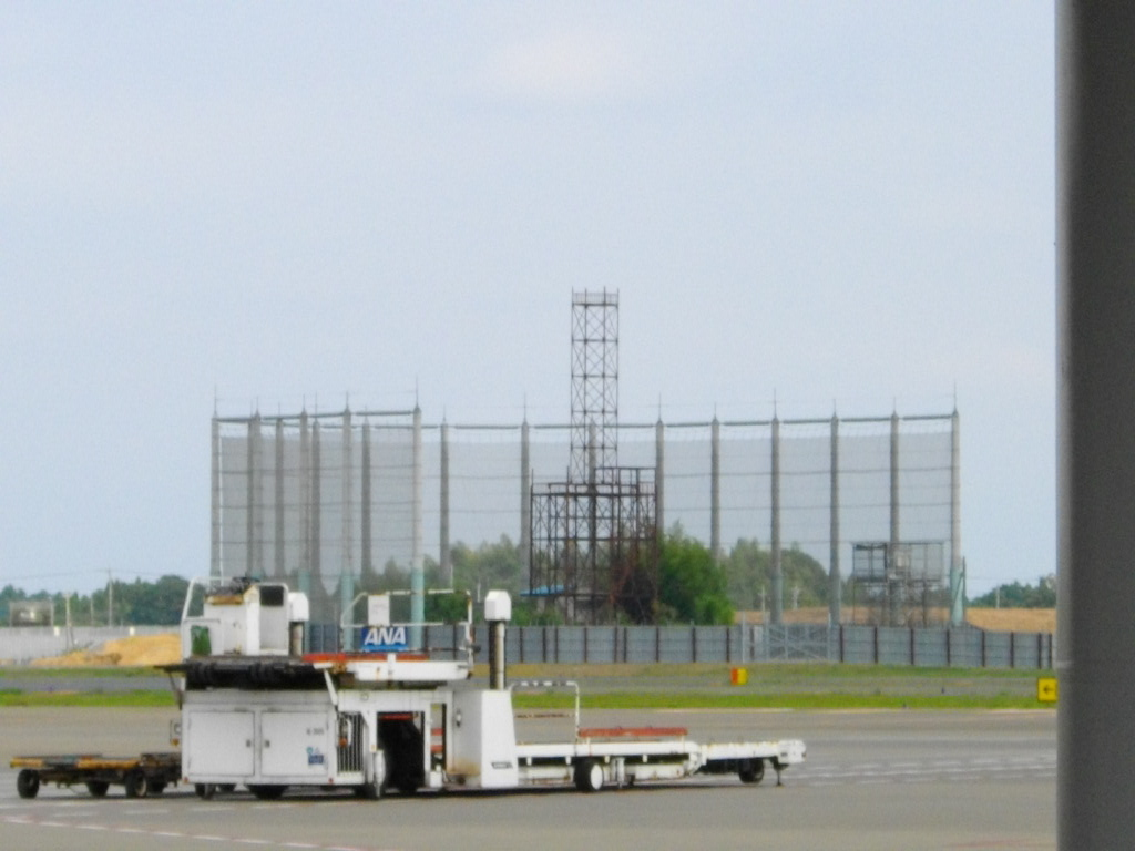 Yokobori Danketsu-Goya(literally "Yokobori Unity Hut")